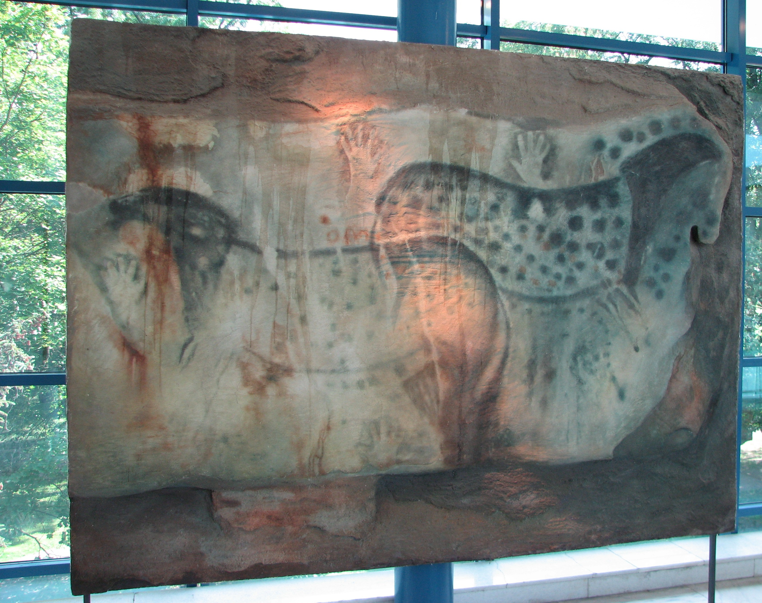 Painting of horses and hands from the Pech Merle cave. Gravettien. Replica in the Brno museum Anthropos.